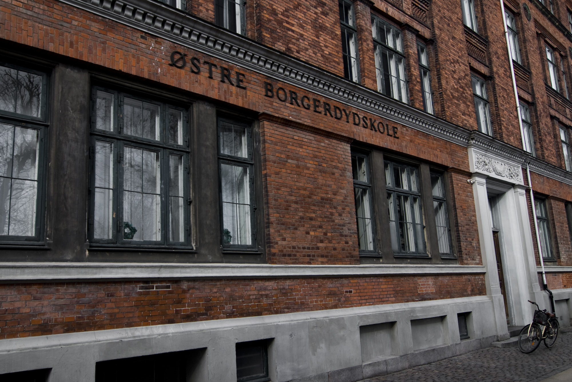 The high-school Østre Borgerdyd in Copenhagen. This photo was uploaded as a part of an conceptual idea: FindVej NoPic.